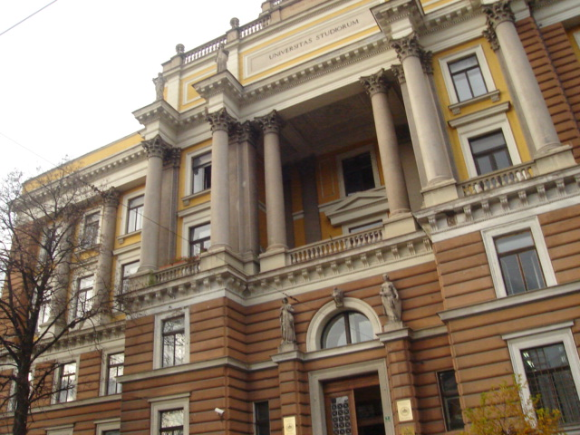 Law school and Rectorate of University of Sarajevo